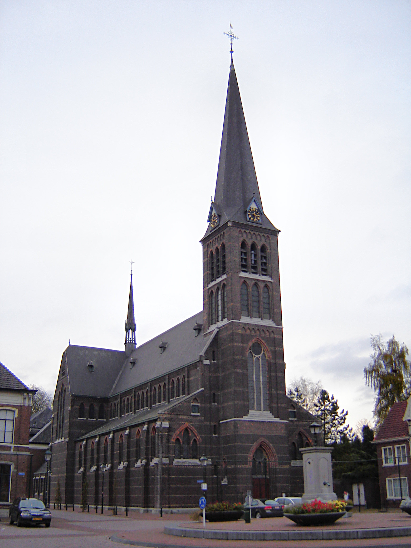 Roman catholic church of the Assumption of Mary in Sas van Gent. Sas van Gent, Terneuzen, Zeeland, the Netherlands